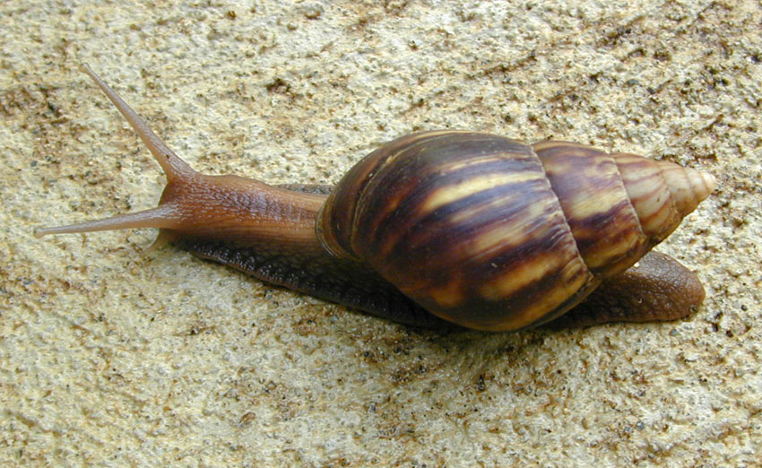 Giant African Snail (Achatina (Lissachatina) fulica Bowdich) photographed August 4, 2001 crossing concrete patio in Kāne'ohe, O'ahu, Hawai'i by Eric Guinther